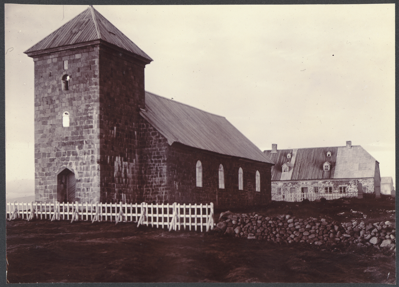 Collection: Icelandic and Faroese Photographs of Frederick W.W. Howell, Cornell University Library Title: Bessastaðir Church, Álptanes (Álftanes). Date: ca. 1900 Place: Bessastaðir (Iceland) Medium: collodion print Repository: Fiske Icelandic Collection, Rare & Manuscript Collections, Cornell University Library Accession: 1923.1.36 Description: Both the church and the building aft of it, now the president's residence, have undergone extensive restoration. URL: Persistent URI: There are no known U.S. copyright restrictions on this image. The digital file is owned by the Cornell Univeristy Library which is making it freely available with the request that, when possible, the Library be credited as its source. We had some help with the geocoding from Web Services by Yahoo!